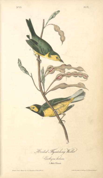 Hooded Warbler by John James Audubon